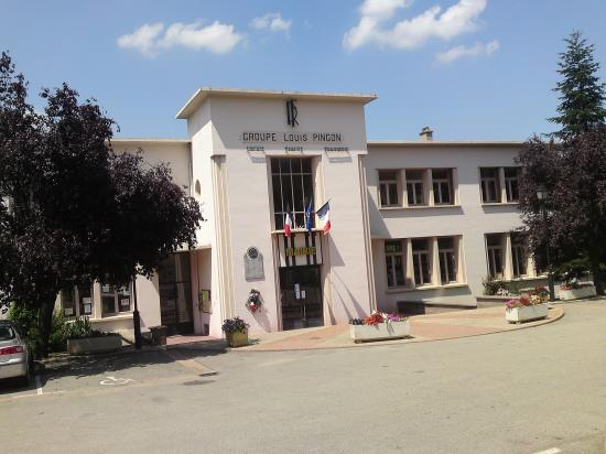 The city council and the school of Saint-Romain-en-Gier.